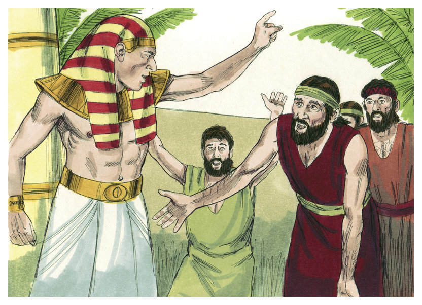 Biblical illustration of Book of Genesis Chapter 44